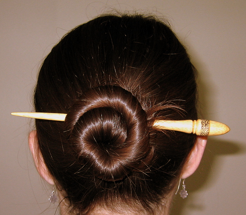 Is it a mini Russian support spindle, or a hair stick? Actually, it's both! This sweet little 7 1/4 inch birch Russian style support spindle, that features Dave's signature pyrographic leaf motif, can do double duty as a beautiful hair stick and as a travel size handspinning tool. The weight of this spindle is 0.2 ounces (5g).